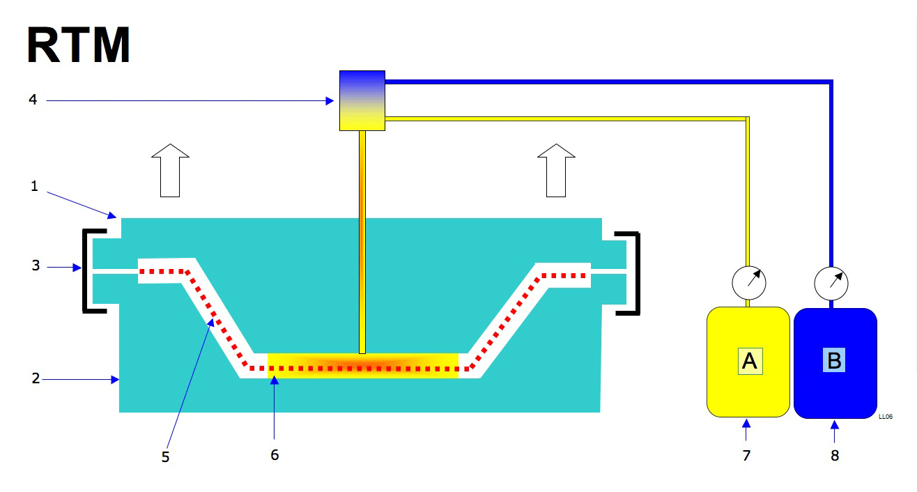 Visualization from the RTM (Resin Transfer Molding) process. December 2006 Laurens van Lieshout.